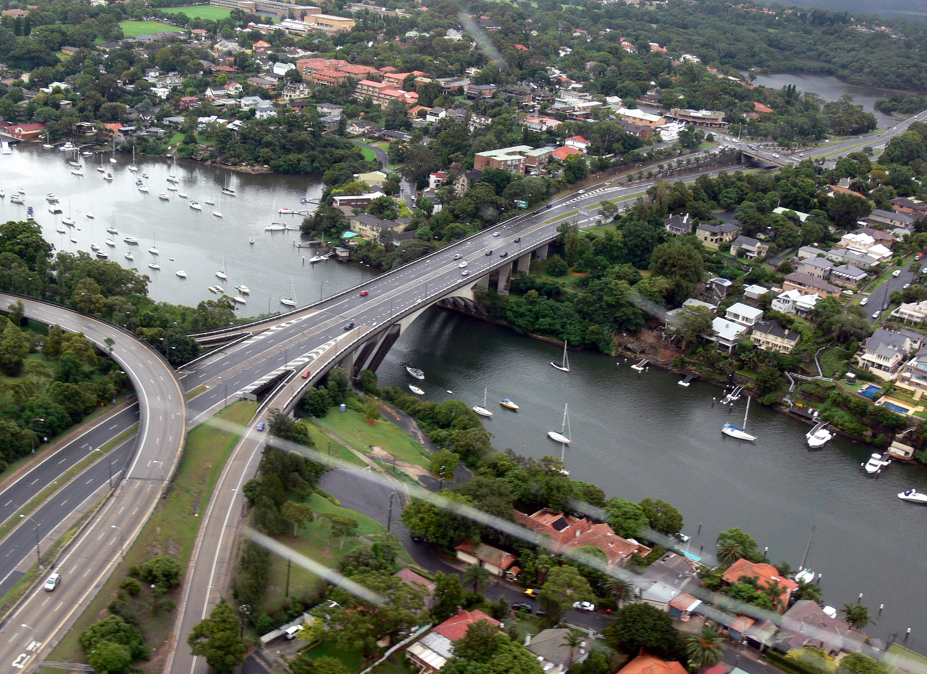 Tarban Creek Bridge panorama, Sydney Australia